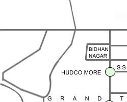 BCET roadmap